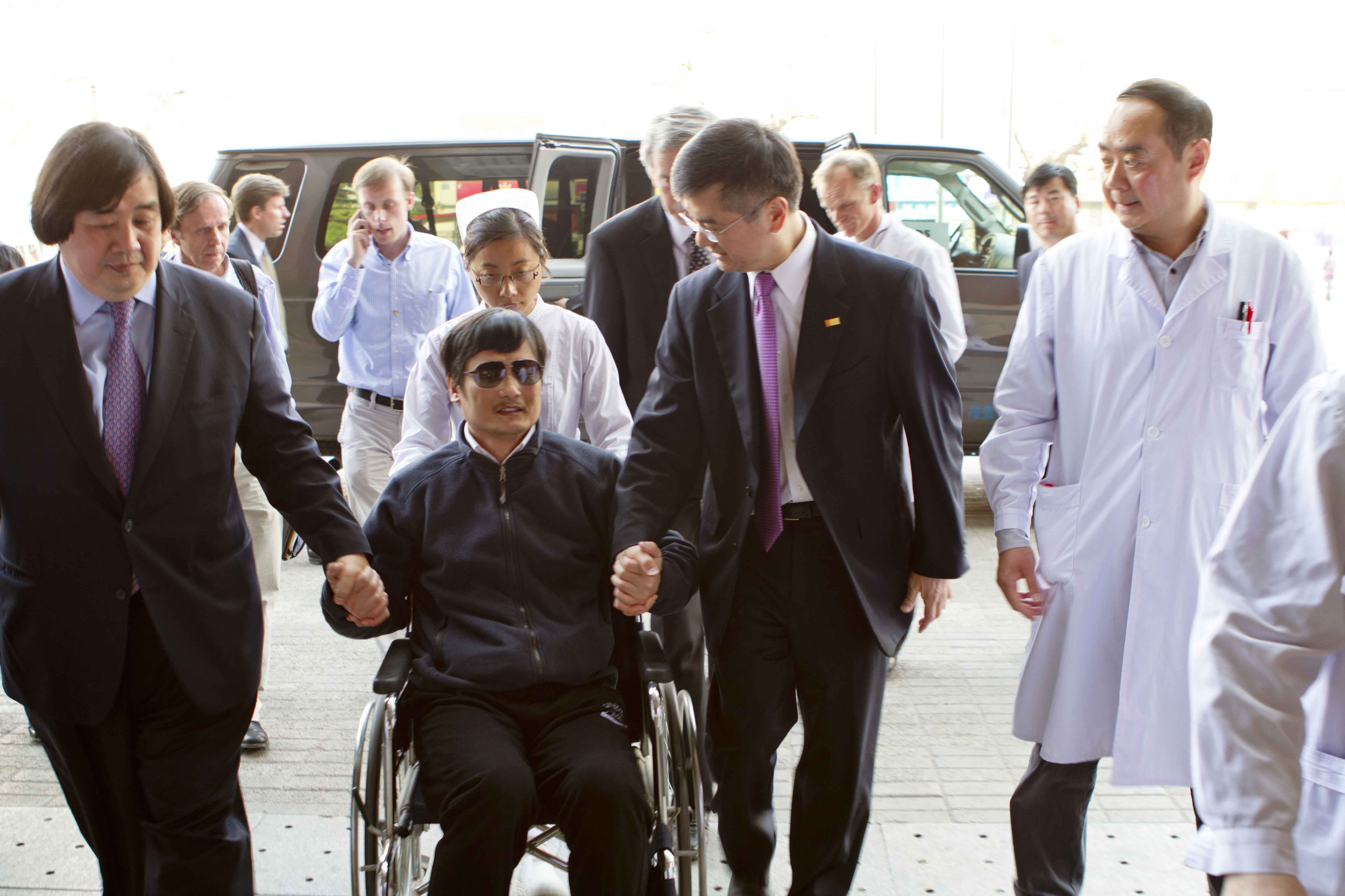 U.S. Ambassador to China Gary Locke, right; and Legal Adviser of the U.S. Department of State Harold Koh, left; with Chen Guangcheng at the U.S. Embassy in Beijing, China, on May 1, 2012. [State Department photo/ Public Domain]